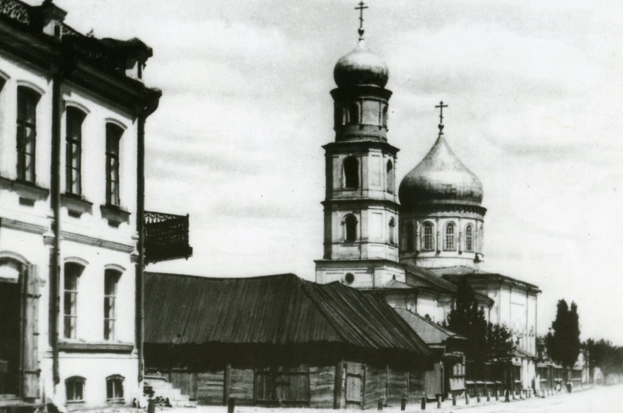 Voskresenskaya (Resurrection) church on Oryol at the begining of XX centuary